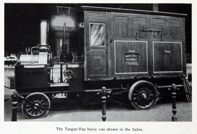 Turgan steam horse van.Turgan & Foy in Levallois-Perret was a pioneer French automobile, and truck manufacturer.